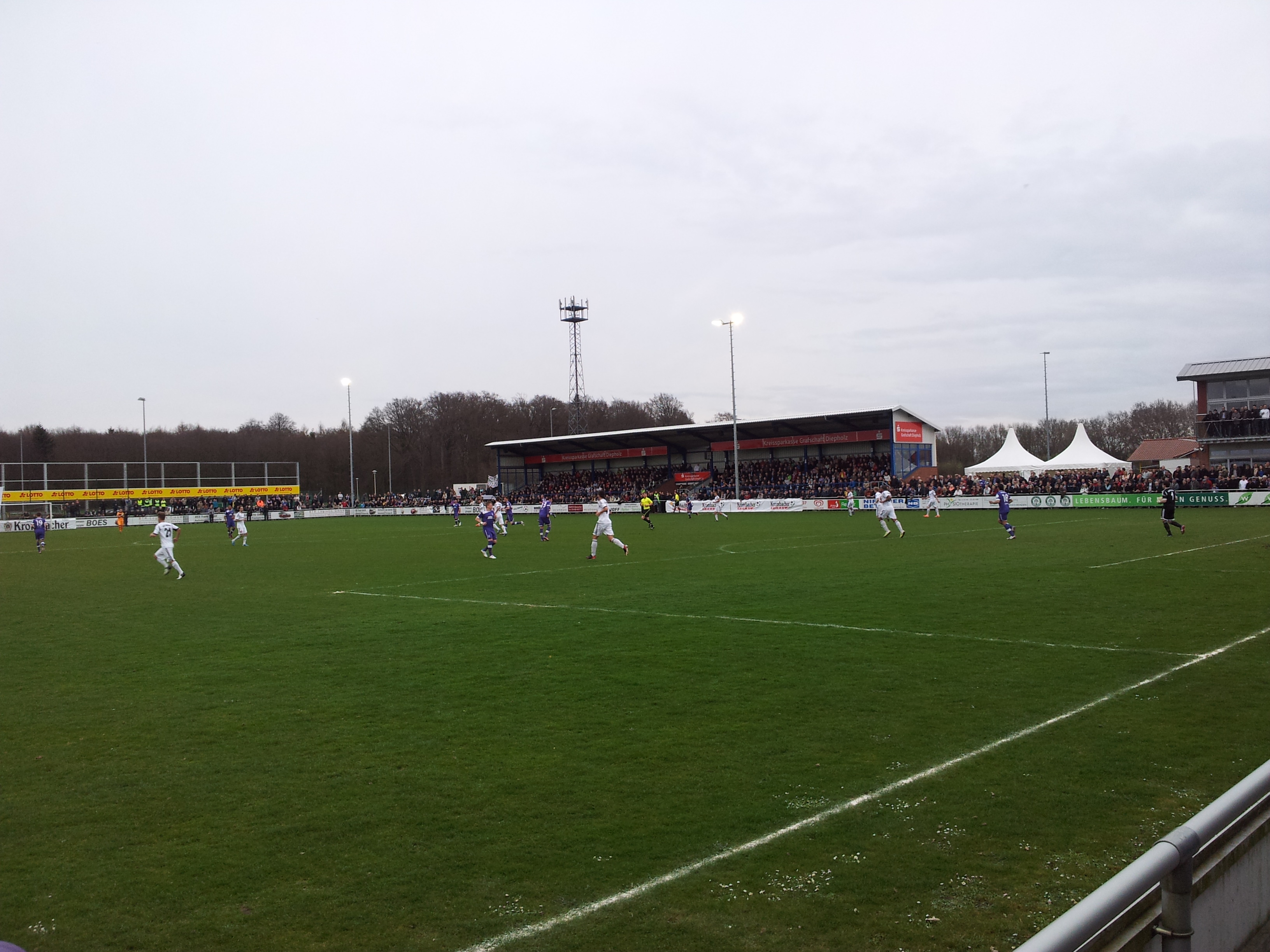 Lower Saxony Cup. BSV Schwarz-Weiß Rehden vs. Vfl Osnabrück.